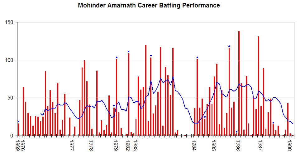 This graph details the Test Match performance of Mohinder Amarnath. It was created by Raven4x4x. The red bars indicate the player's test match innings, while the blue line shows the average of the ten most recent innings at that point. Note that this average cannot be calculated for the first nine innings. The blue dots indicate innings in which Amarnath finished not-out. This graph was generated with Microsoft Excel 2002, using data from Cricinfo and .au.